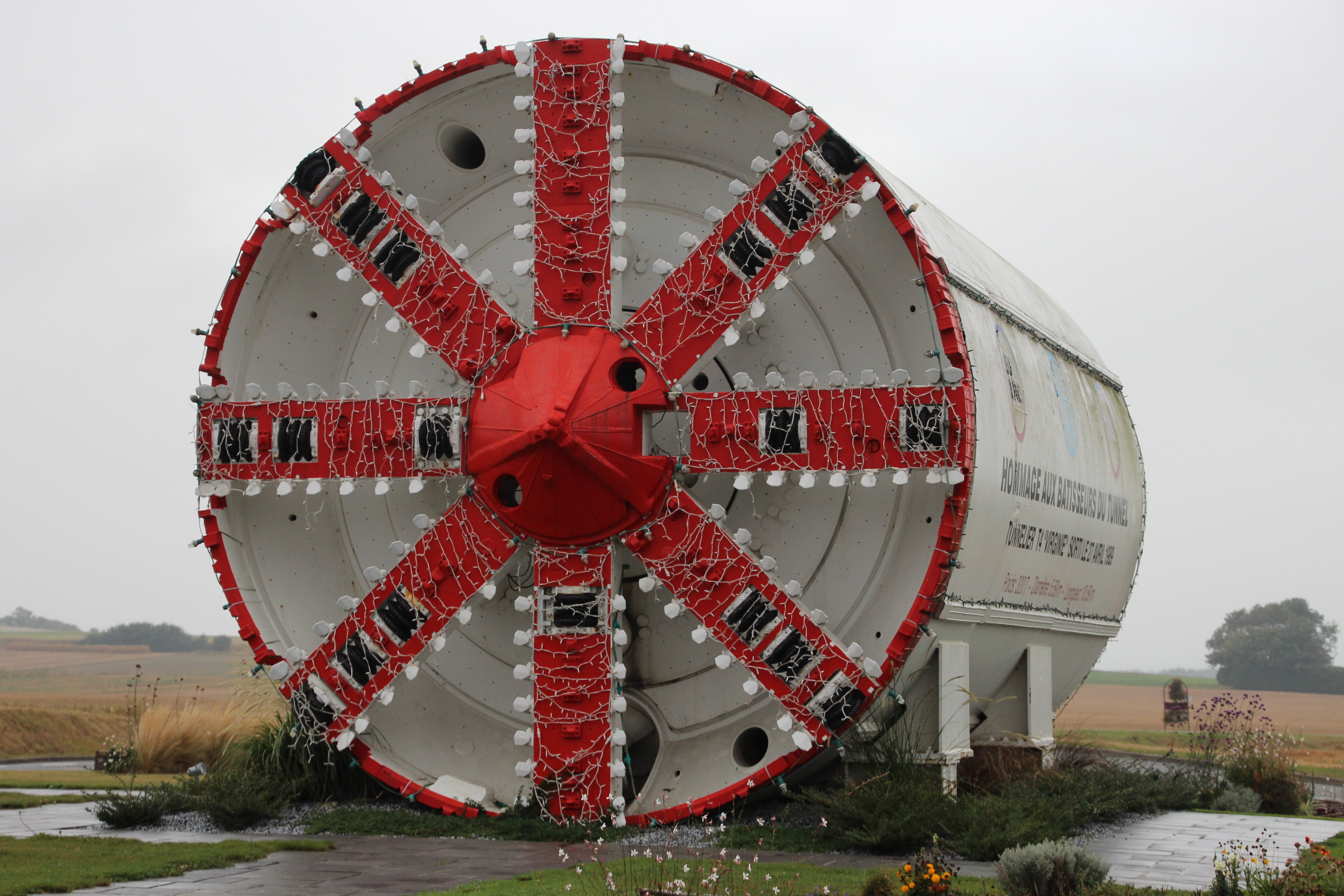 Tunnel boring machine exposed in Coquelles, France